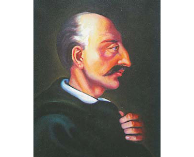 Francesco Milizia (1725-1798)